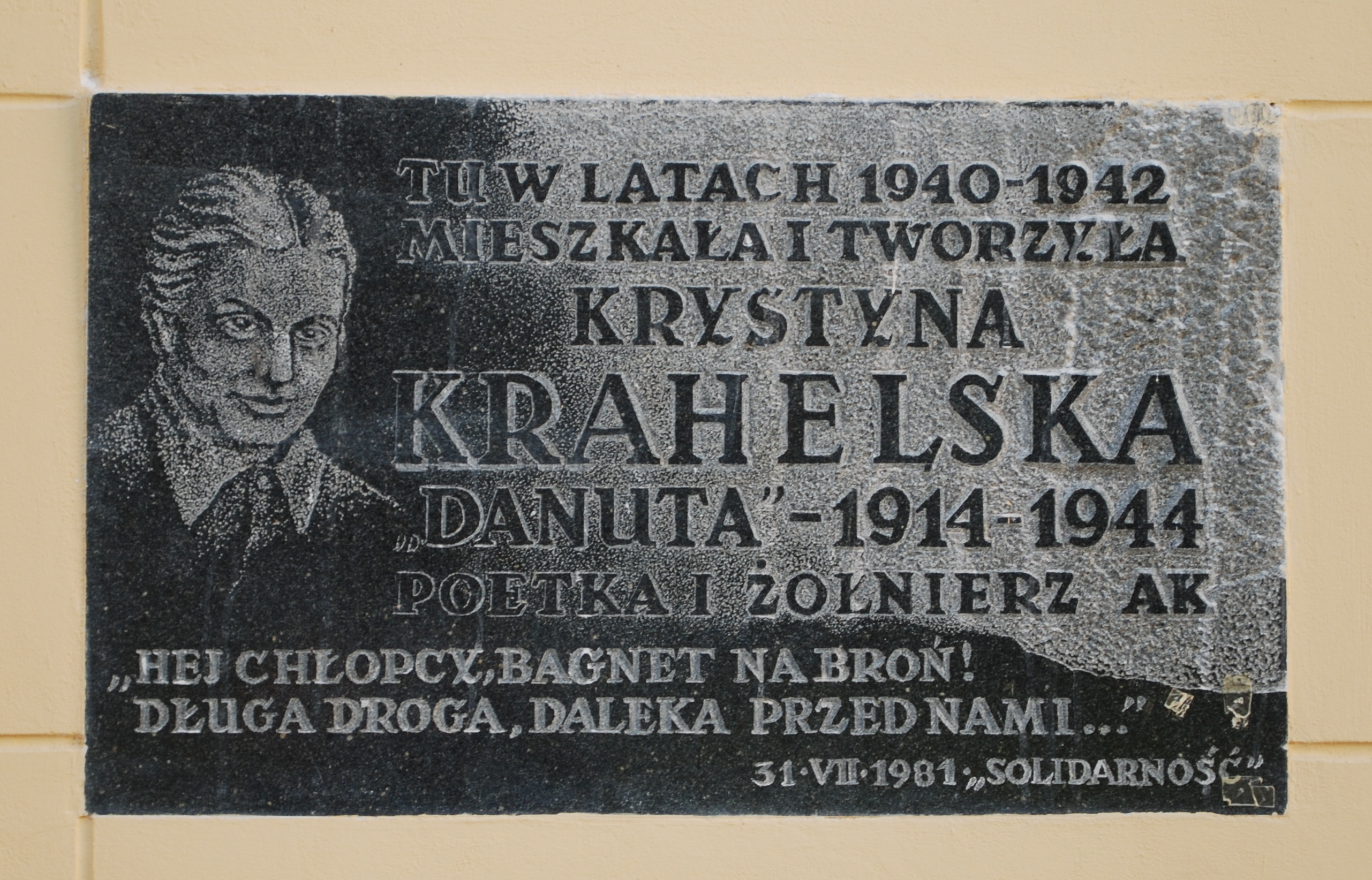 The memory board of Krystyna Krahelska, polish poetess and soldier of the Home Army during II World War, on the wall of Czartoryski Palace in Puławy, Poland.